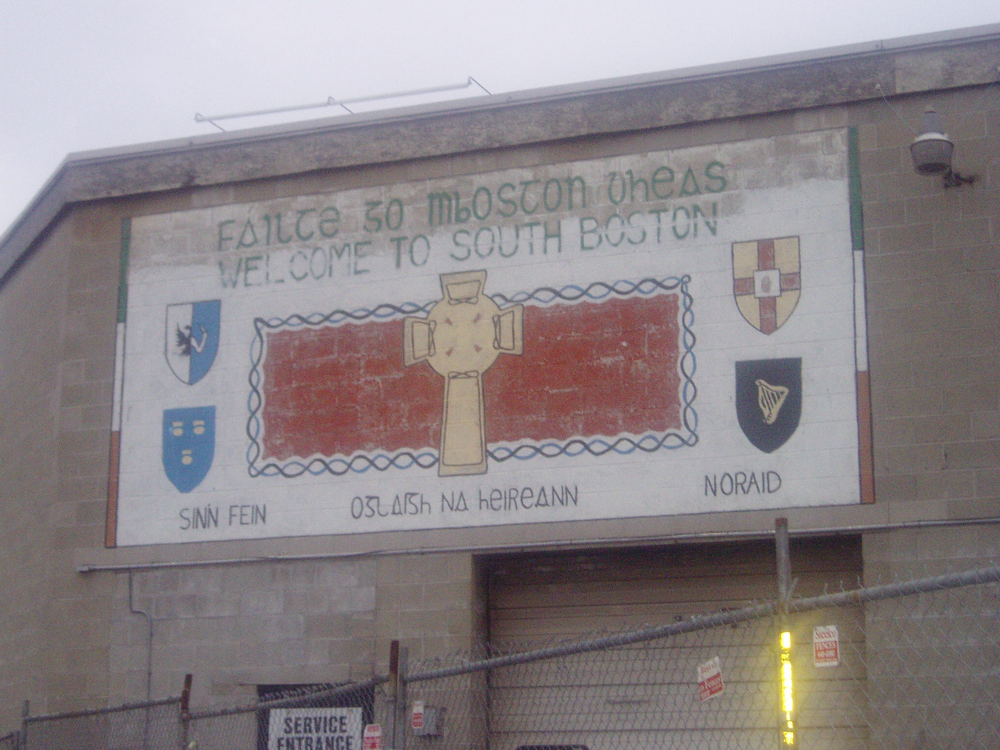 Taken by User:Looper5920 in October 2004 Category:Images of Boston.